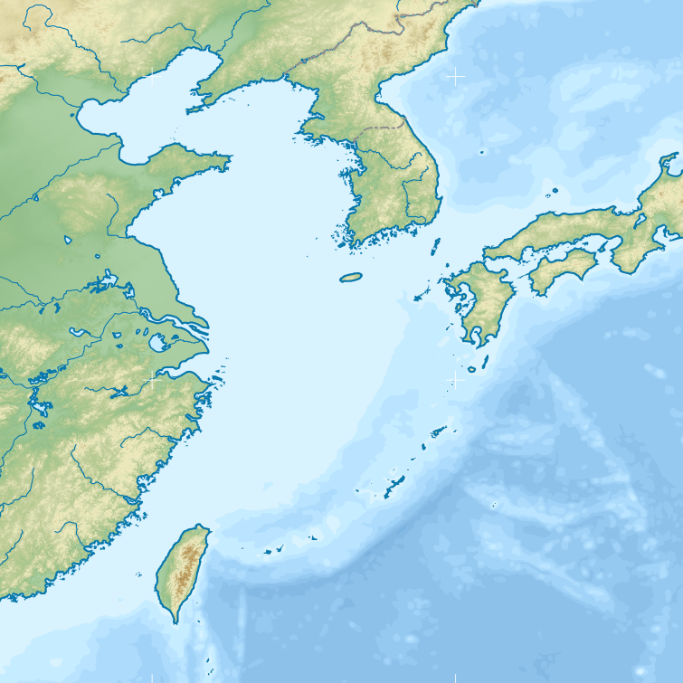 Equirectangular projection location map of the East China Sea. Geographic limits of the map: N: 42.5° N S: 20° N W: 115° E E: 137.5° E